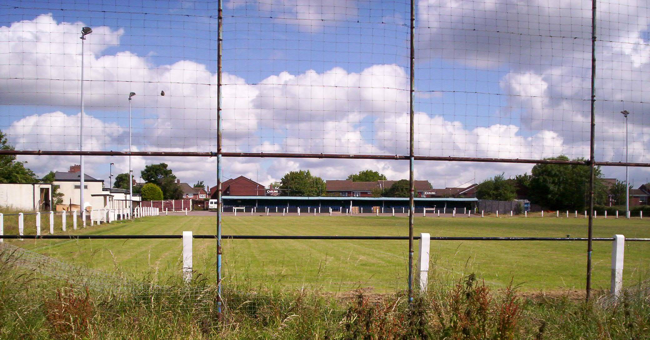 The Old Red Lion Ground, home stadium of Bloxwich United A.F.C.